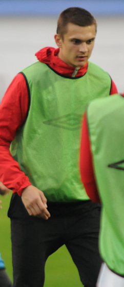 dmitriy zinovich